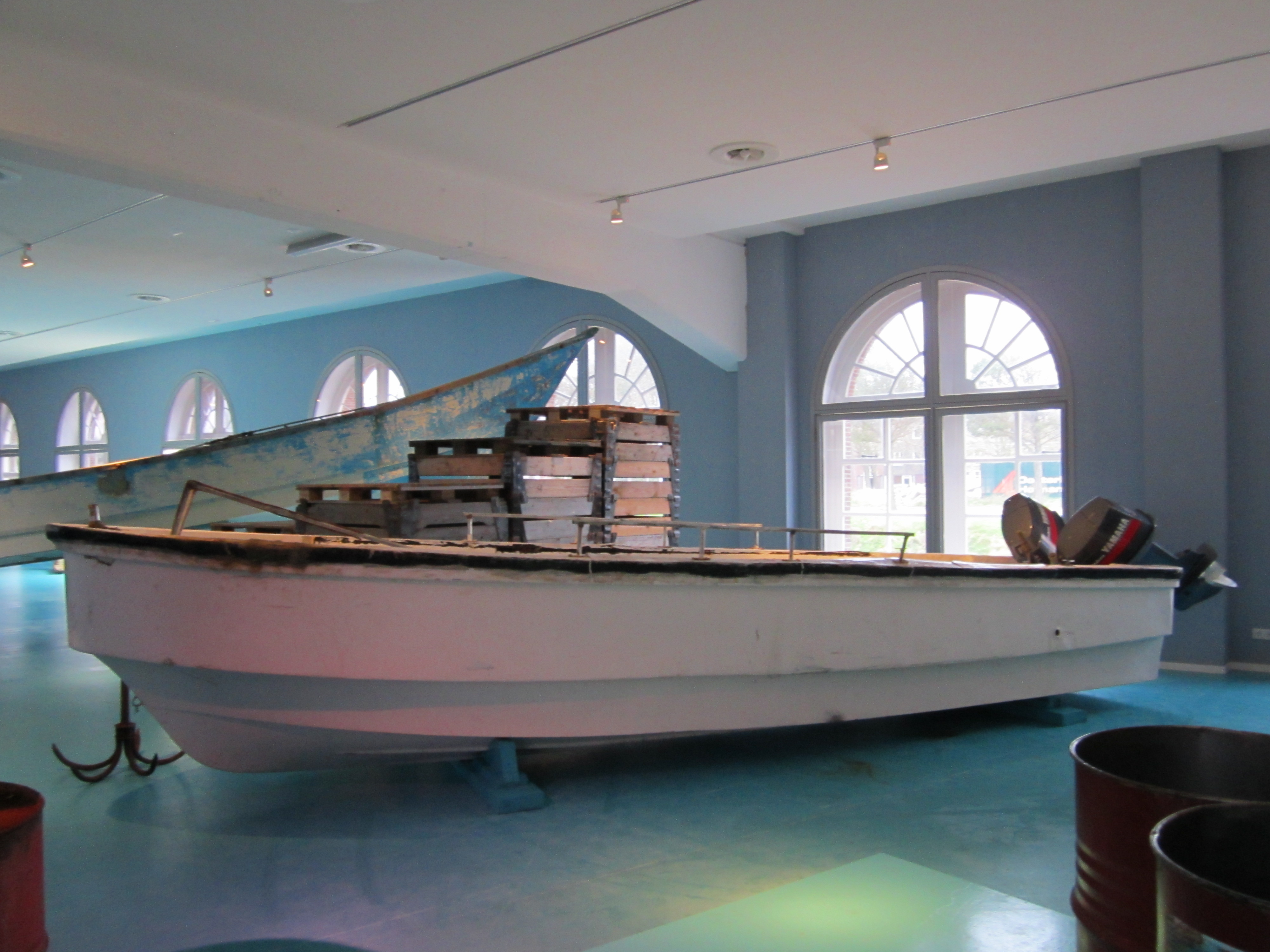 A pirate boat captured by the Royal Netherlands Navy off the Horn of Africa on display at the Marinemuseum Den Helder in October 2011